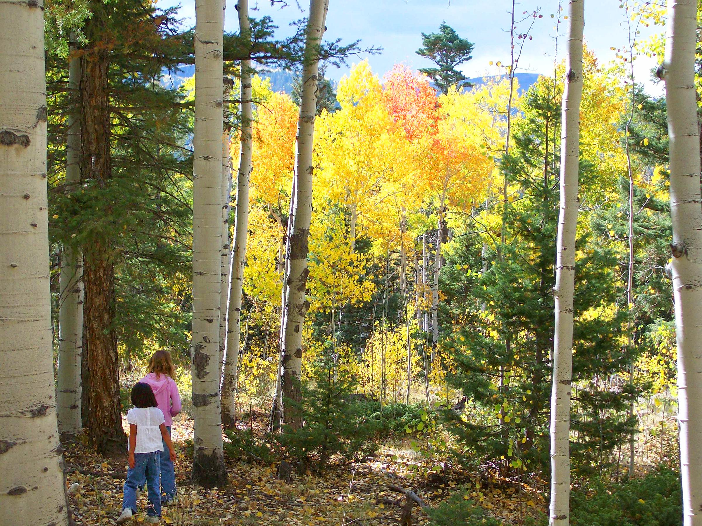 NPS/Patrick Myers